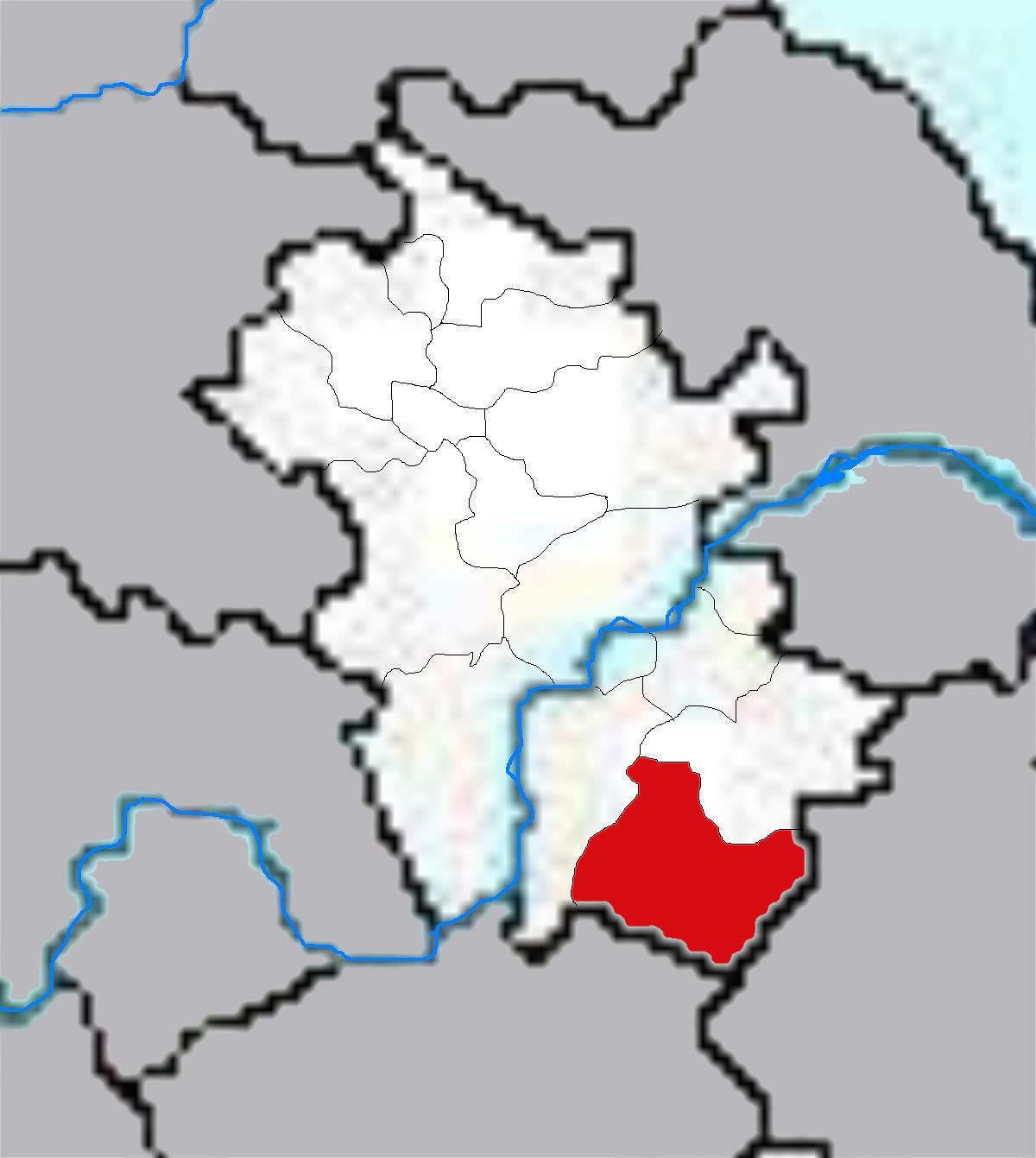 Maps of Anhui Province of China